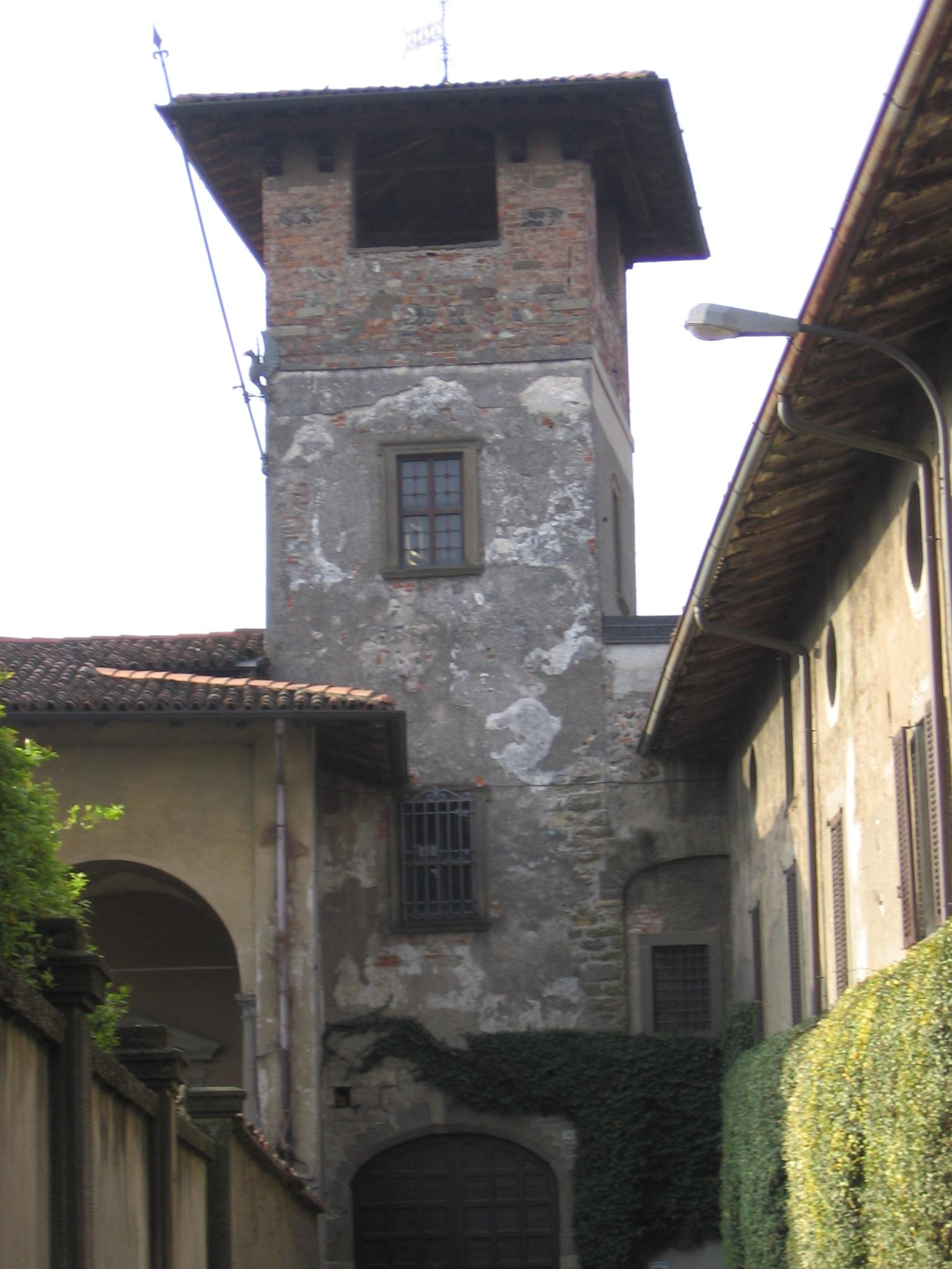 Gorle, Bergamo, Italia